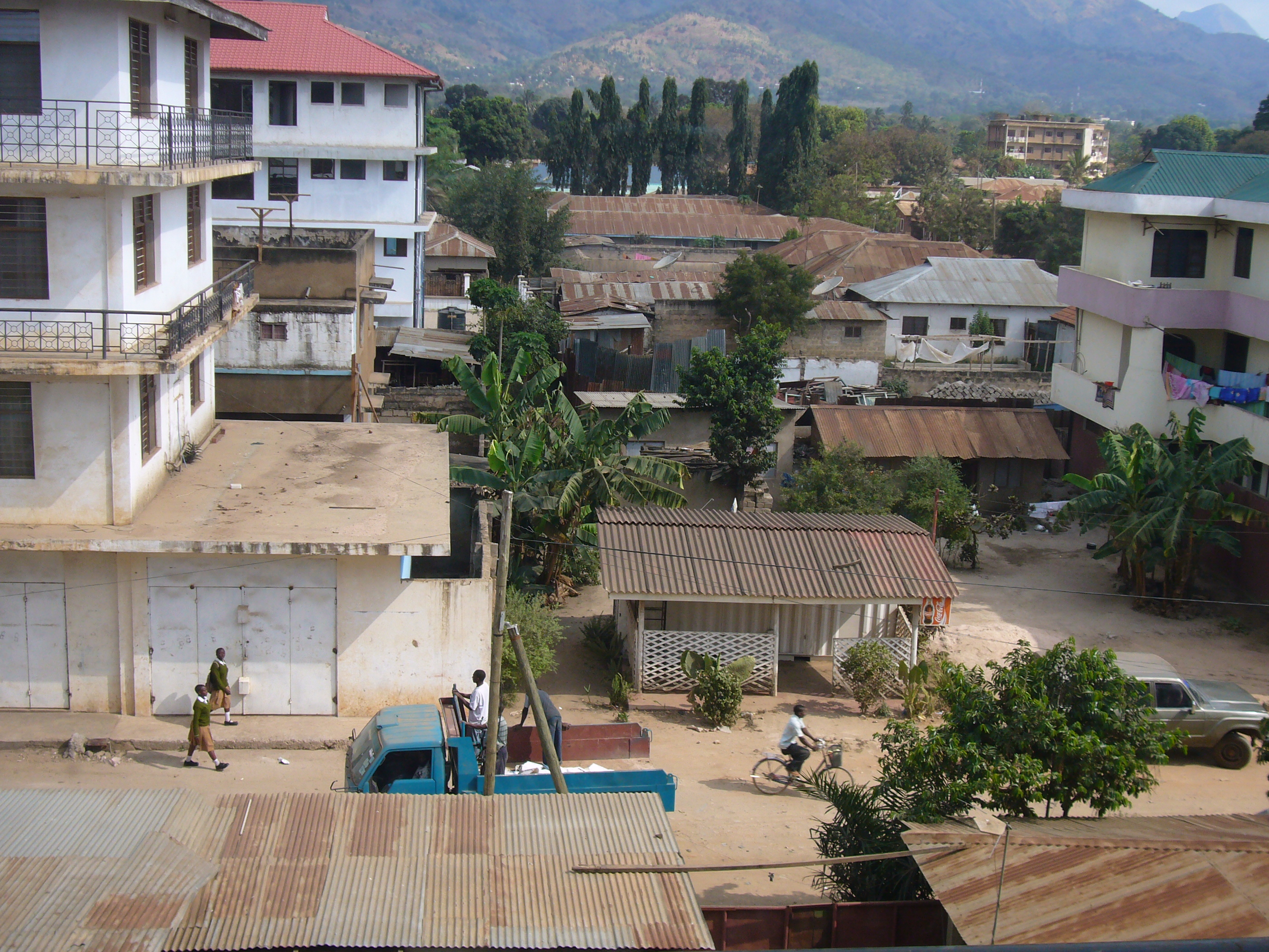 Morogoro, Tanzania